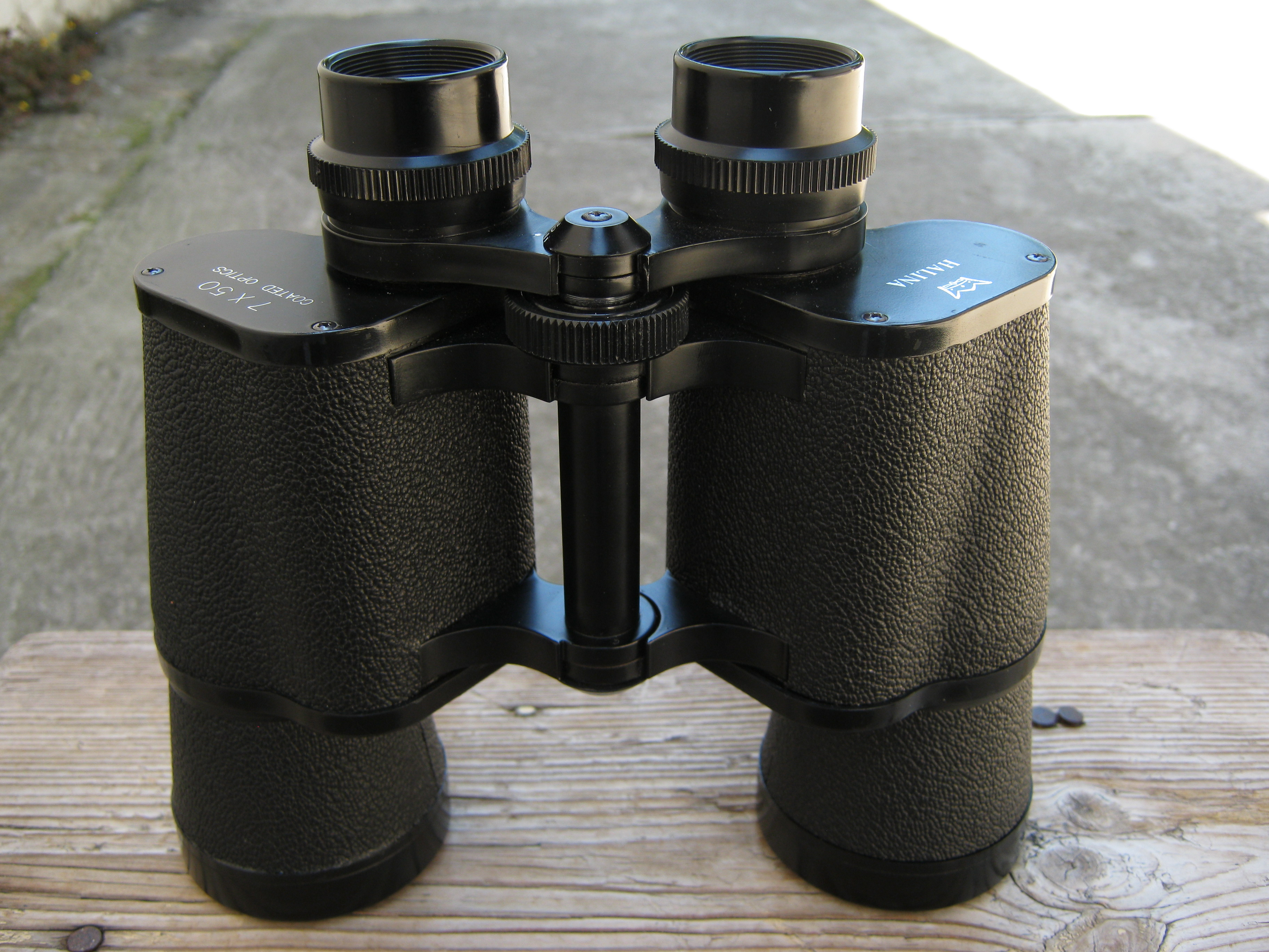 These binoculars are several decades old, but they are still in perfect condition.